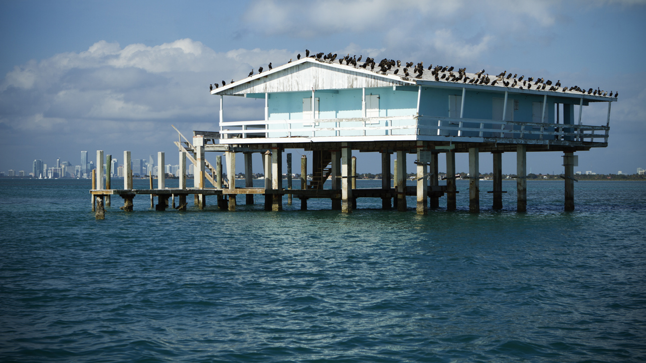 This is a picture of the Jimmy Ellenburg house in Stiltsville (Miami, Florida).